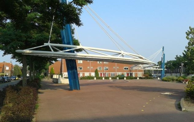 Maasplein, Waterkwartier, Nijmegen.